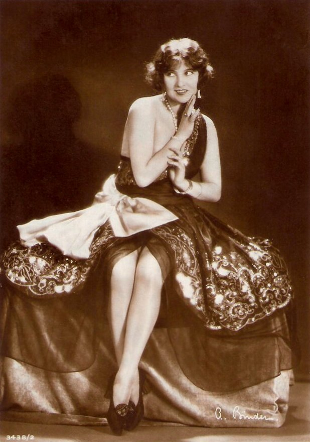 Lucy Doraine